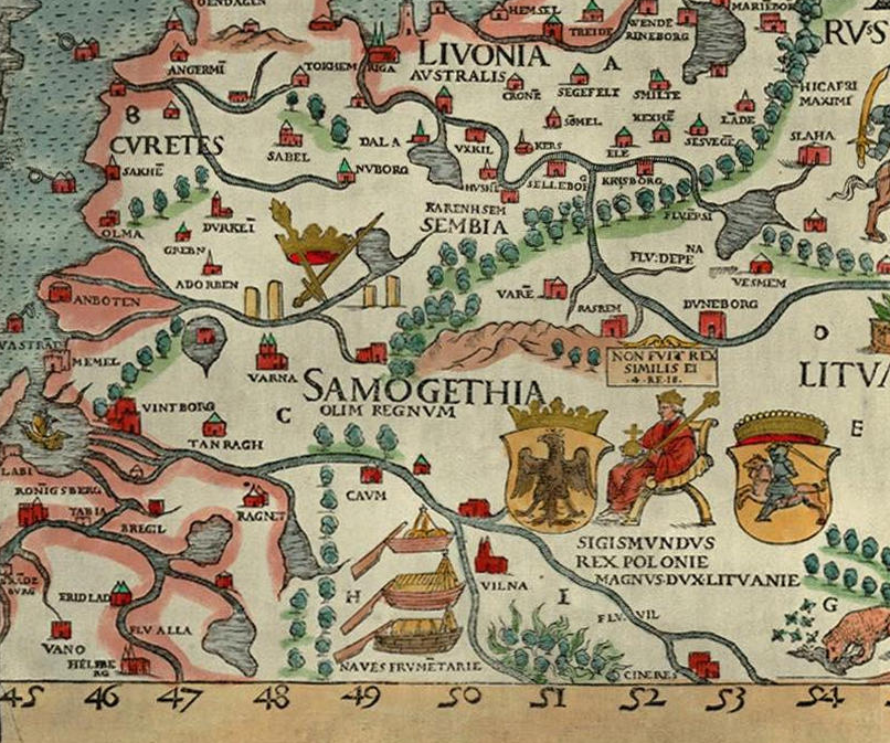 A part of Carta Marina where Lithuanian type of trade ship - Vytinė is depicted (Naves frumentarie).